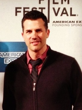 Alan Hahn